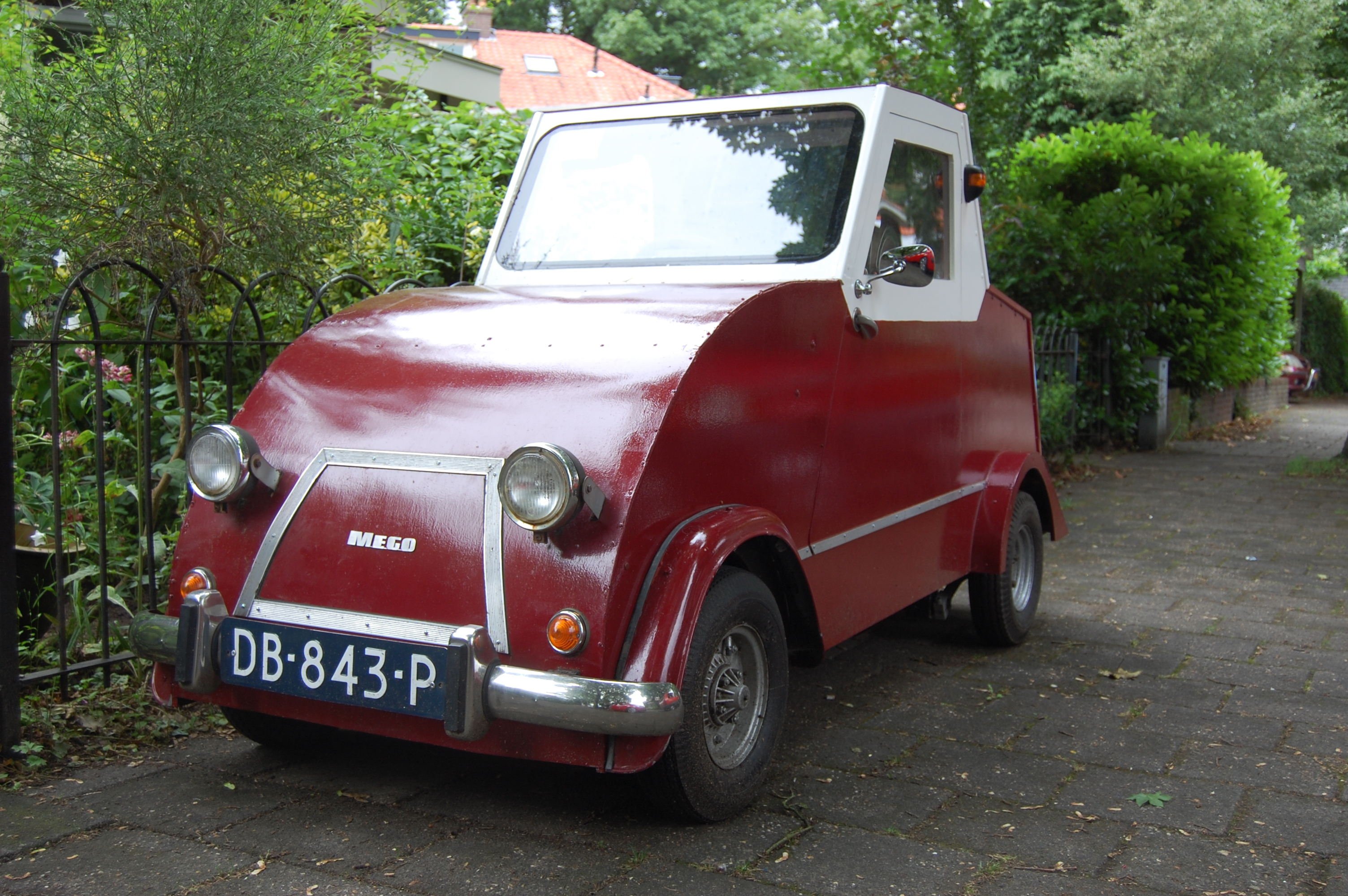 MEGO Bromauto